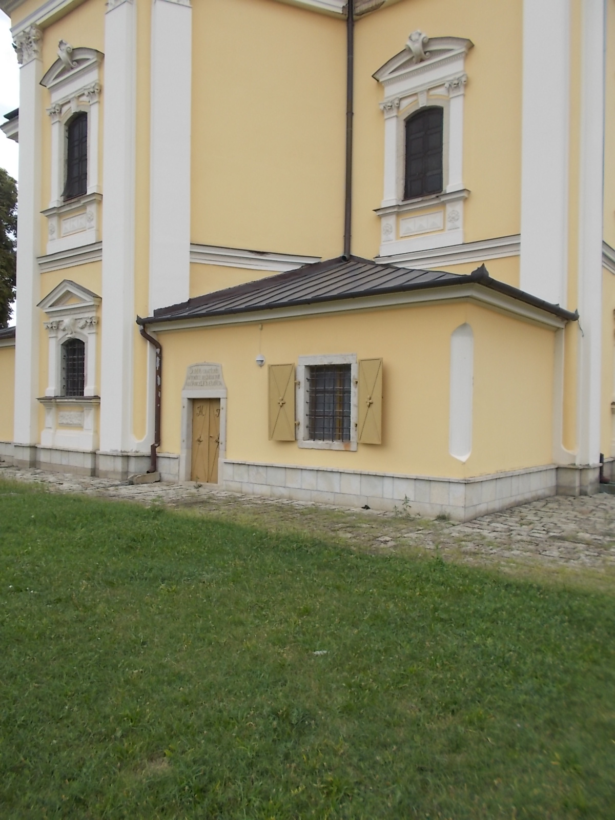 Lutheran Great Church, Baroque origin, 1784-1786. Reconstructed in eclectic neo-baroque style between 1850-1860, 1885-1886 and 1936. - Luther Square, Nyíregyháza, Szabolcs-Szatmár-Bereg County, Hungary.